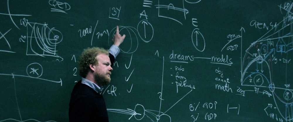 Tomas Sedlacek teaching at Bayreuth University